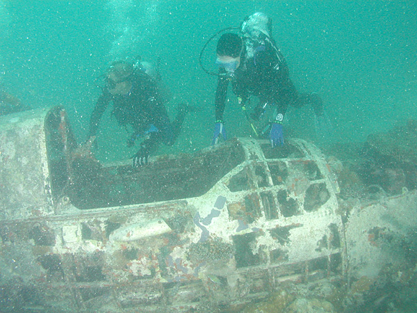 Divers next to cockpit of Aichi E13 "Jake" floatplane wreck, Kavieng harbor, New Ireland. Papua New Guinea.